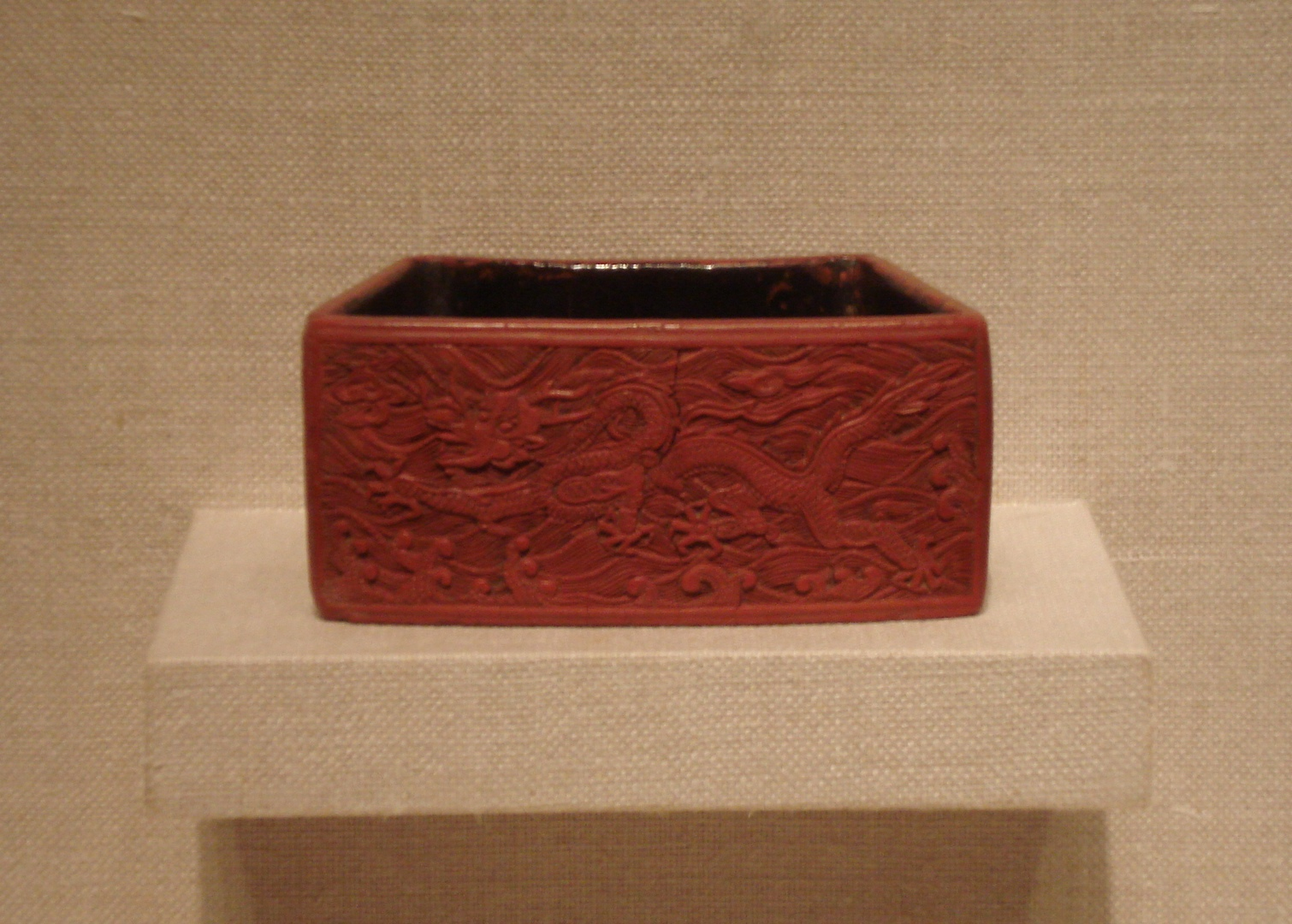 A Chinese cricket container made of lacquer over wood, from the Ming Dynasty, dated to the reign of the Jiajing Emperor (1521–1567).